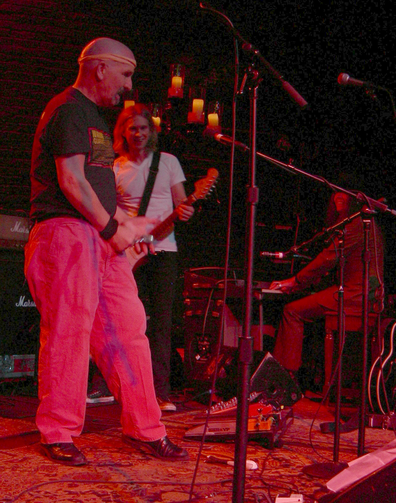 Artis the Spoonman playing with Jeff Rouse, Josh LaBelle, Jeff Angell , Leif Andersen and Ben Anderson in a "house band" at the tail end of the Moore 100 Open House Celebration, celebration of the 100th anniversary of the Moore Theatre, Seattle, Washington.